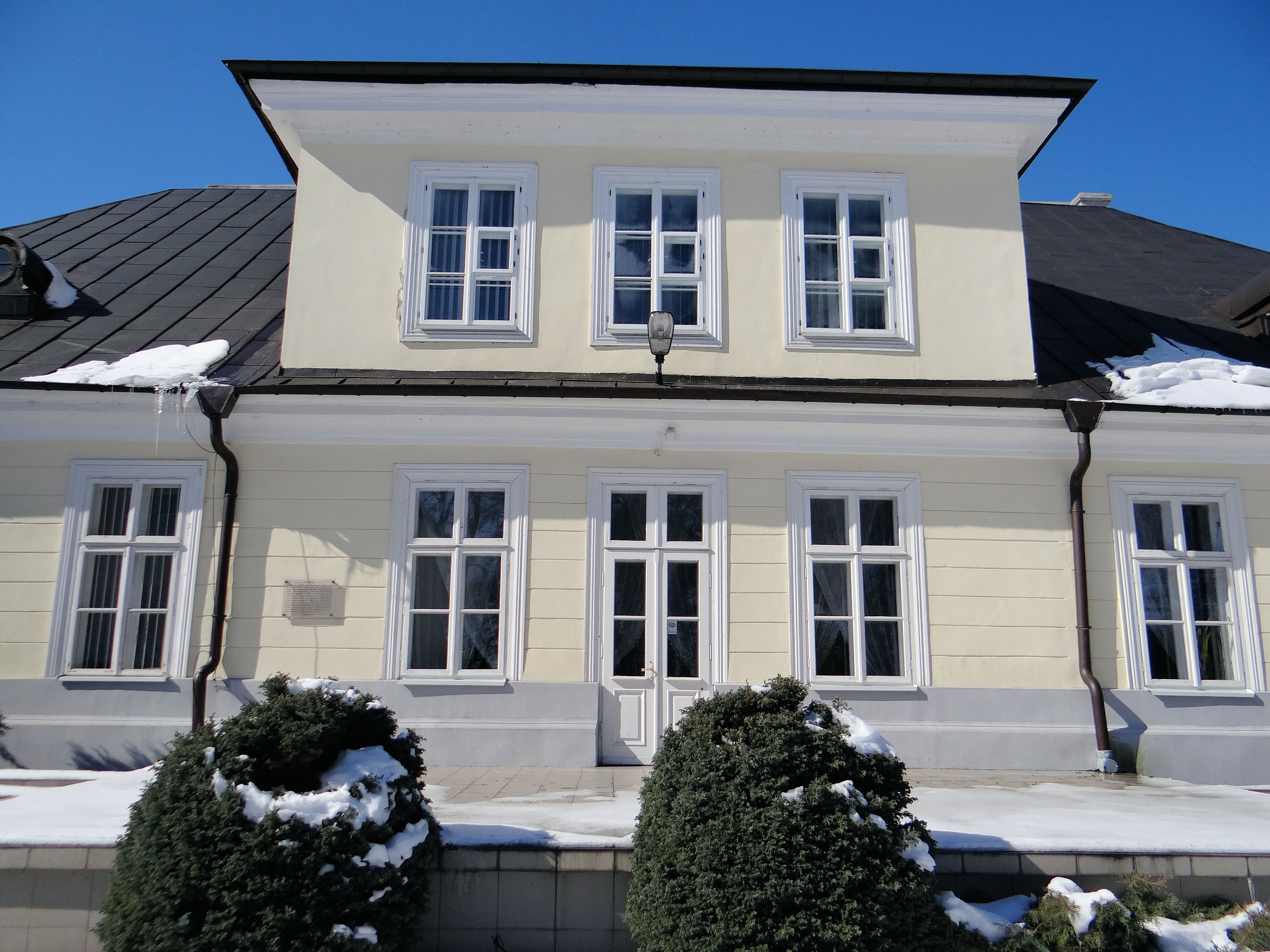 Palace in Sochaczew Czerwonka